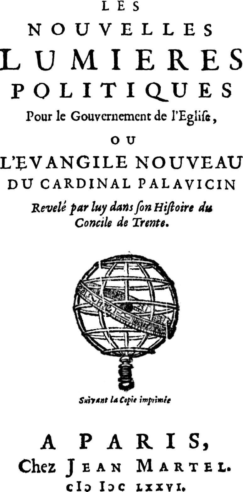 Jean Le Noir's Les Nouvelles Lumières politiques, ou l’Évangile nouveau, 1676, meant to put a stop to Cardinal Pallavicino's Istoria del Concilio di Trento translation into the French language.